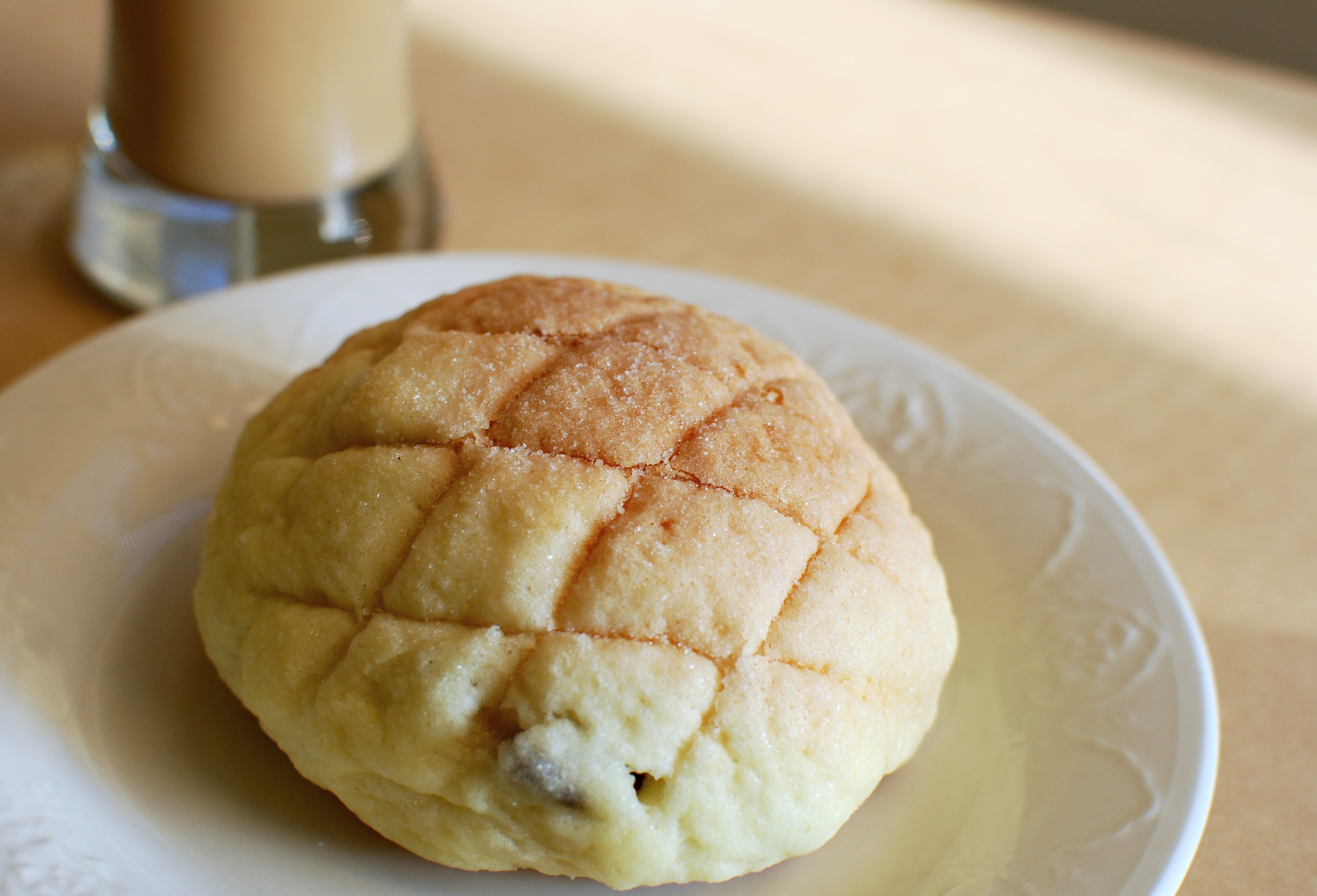 The melon pan from Saint-Germain has raisins in it. I usually get my melon pan from Panya or Saint Germain and enjoy both very much. ..But, do you have a recommendation for a good bakery on the island that sells yummy pan?